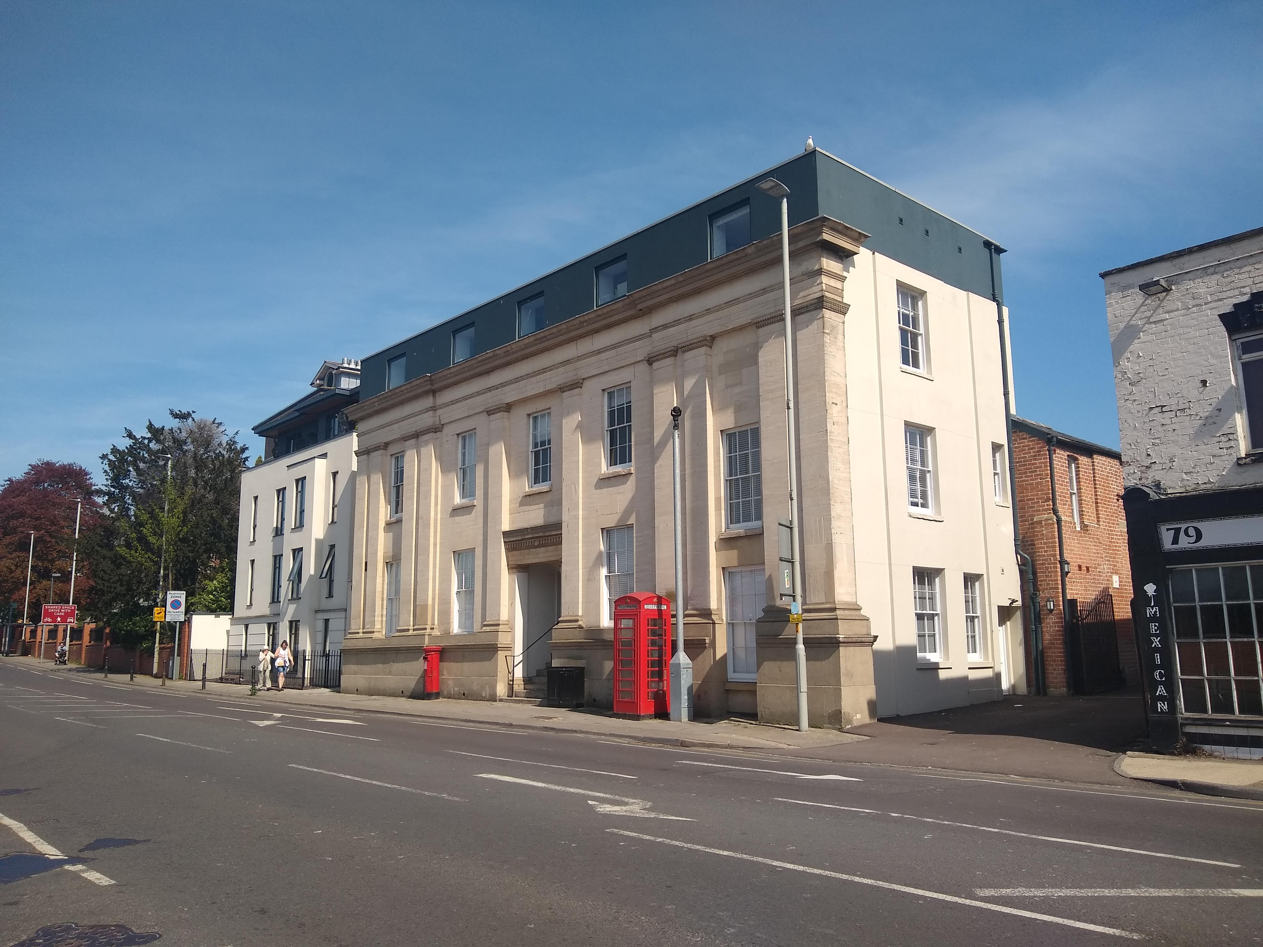 Albion House, Gloucester. Formerly the Albion Hotel. Thomas Fulljames designed.